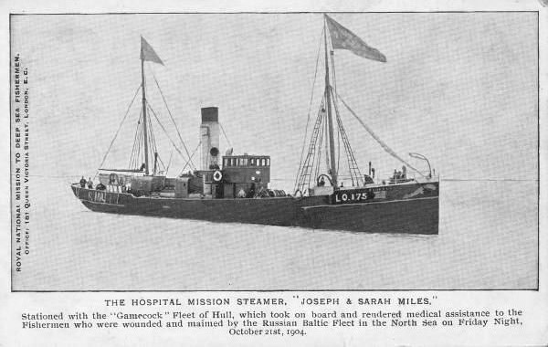 Mission steamer Joseph and Sarah Miles (1904).